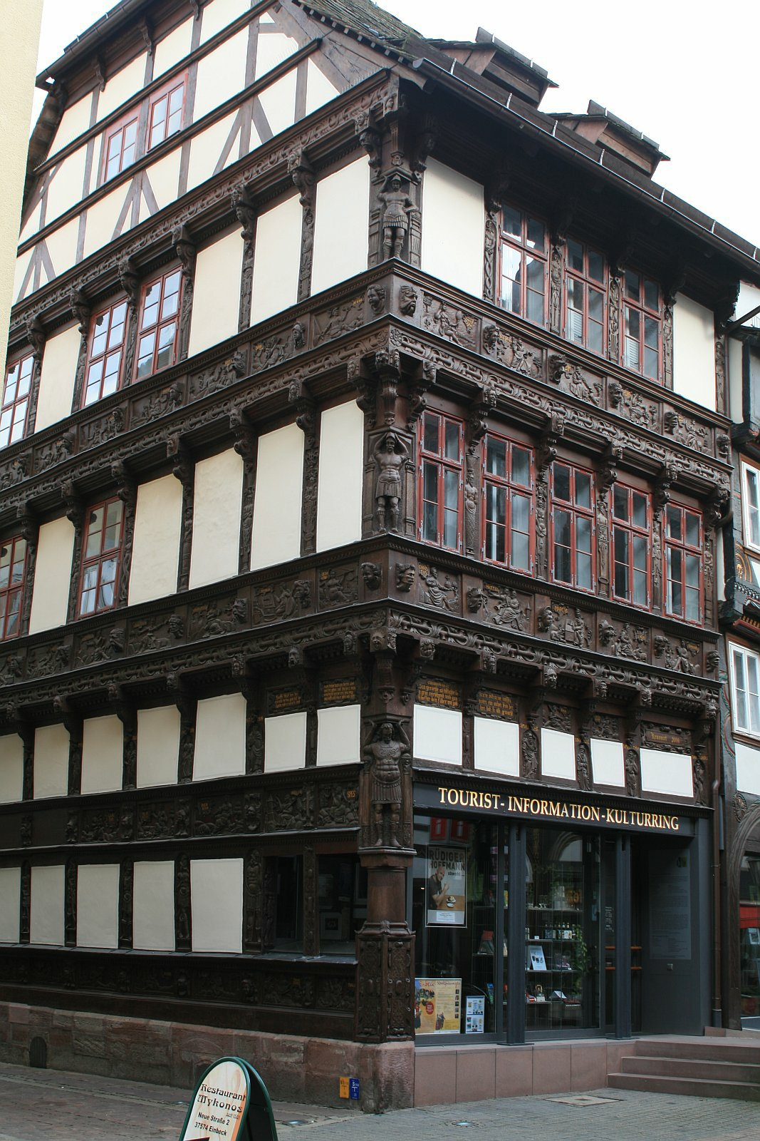 Eicke's House (German: Eickesches Haus), timberframe built around 1612 in Einbeck, Germany; last restauration 2008; today: tourist information